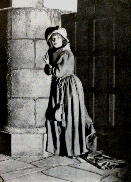 Betty Compson on the set of the American film To Have and to Hold (1922), page 69 of the September 1922 Photoplay.